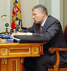 Russian billionaire Alexander Lebedev